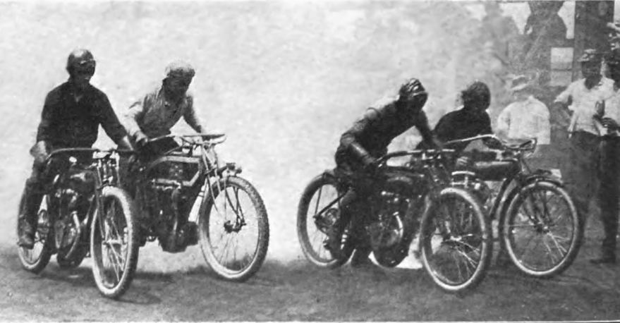 The Flying Merkel Racing Team. 1913.